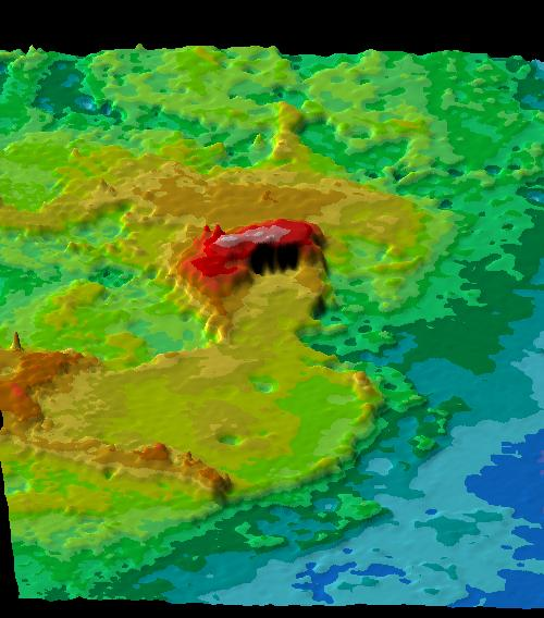 This perspective view of Ishtar Terra was derived from data obtained by the Pioneer Venus spacecraft's altimetry radar instrument. Ishtar viewed from the west (bottom of image) is centered at about 65 degrees north latitude and 0 degrees longitude. Ishtar (approximately equal in size to Australia) is a large plateau standing 3.3 km above the surrounding lowlands, bounded by relatively steep slopes. Rising above this plateau are three massifs: Akna Montes and Freyja Montes along the western and northwestern edge of Lakshmi Planum, and Maxwell Montes along its eastern edge. The eastern part of Ishtar, east of Maxwell, is a complex hilly terrain ~1 km lower than Lakshmi Planum that lacks the steep well-defined boundary slopes that characterize the plateau. Maxwell Montes, highest point on the planet is elevated more than 10 km (32,000 ft) above the surrounding lowlands. Color-coded altimetry shows elevations in .5 and 1 km intervals. Cool colors mark low elevations and warm colors mark high elevations